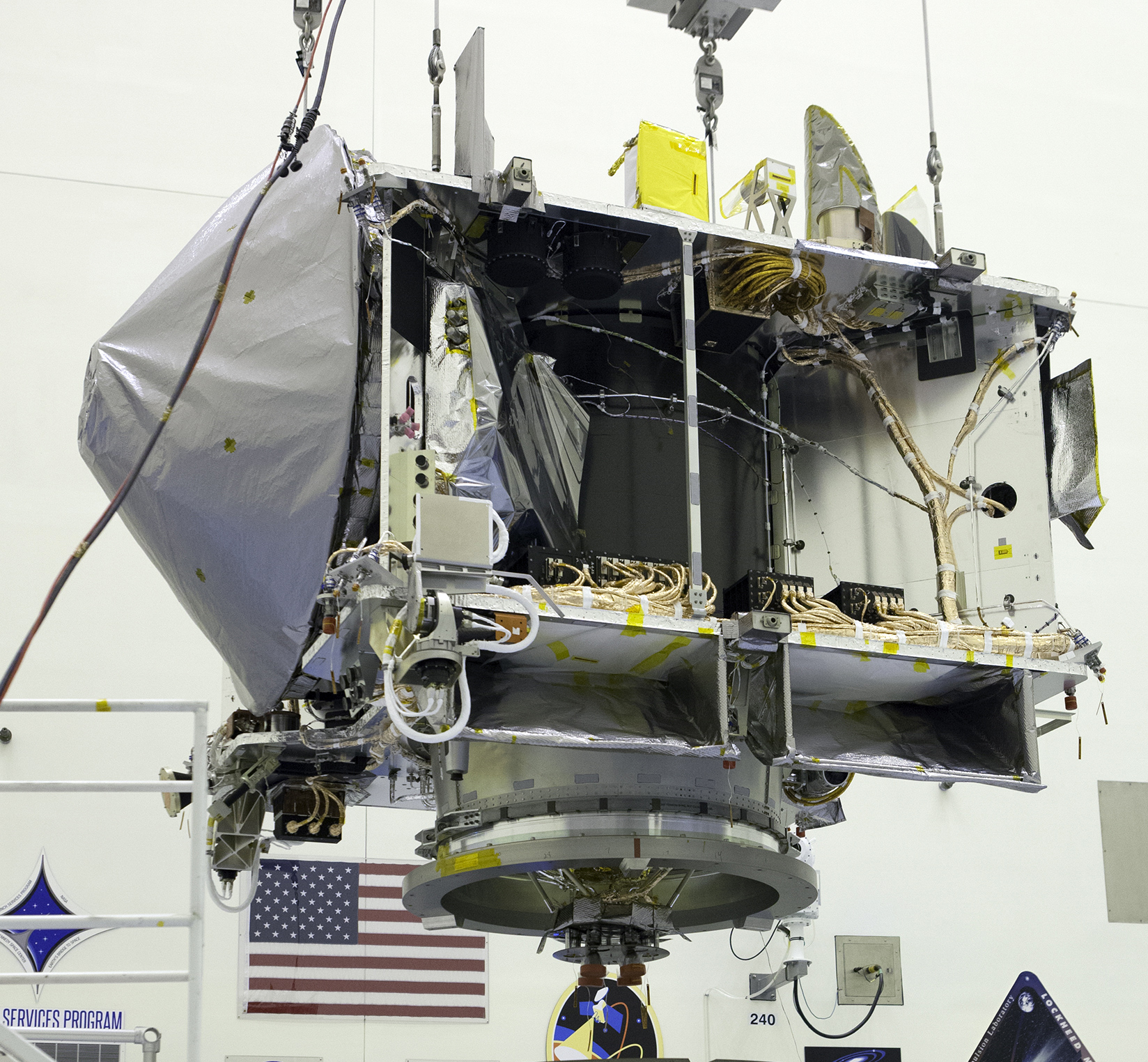 OSIRIS-REx being hoisted on rotation stand and rotated downwards inside the PHSF.